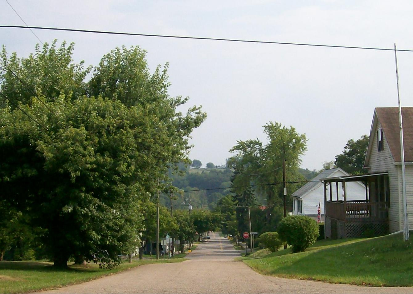 The Belmont Historic District as viewed from SR 147